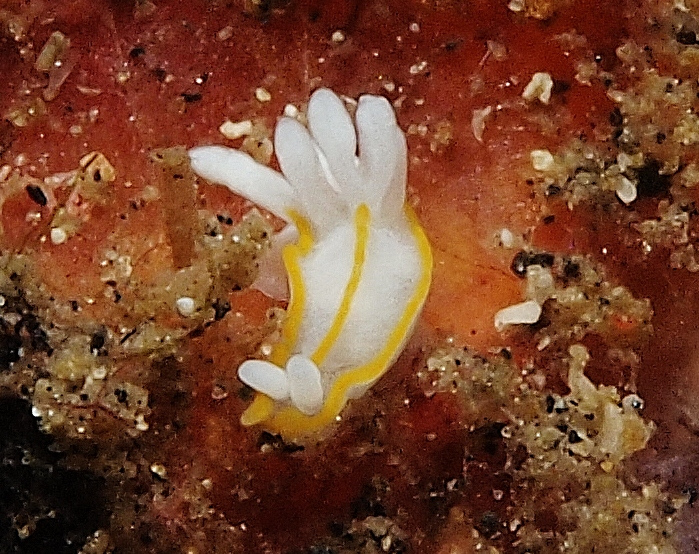 Photo of Goniodoridella_savignyi